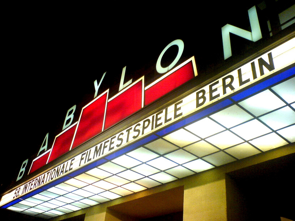 Kino Babylon during the Berlin International Film Festival